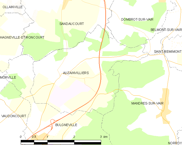 Map of French municipality Auzainvilliers